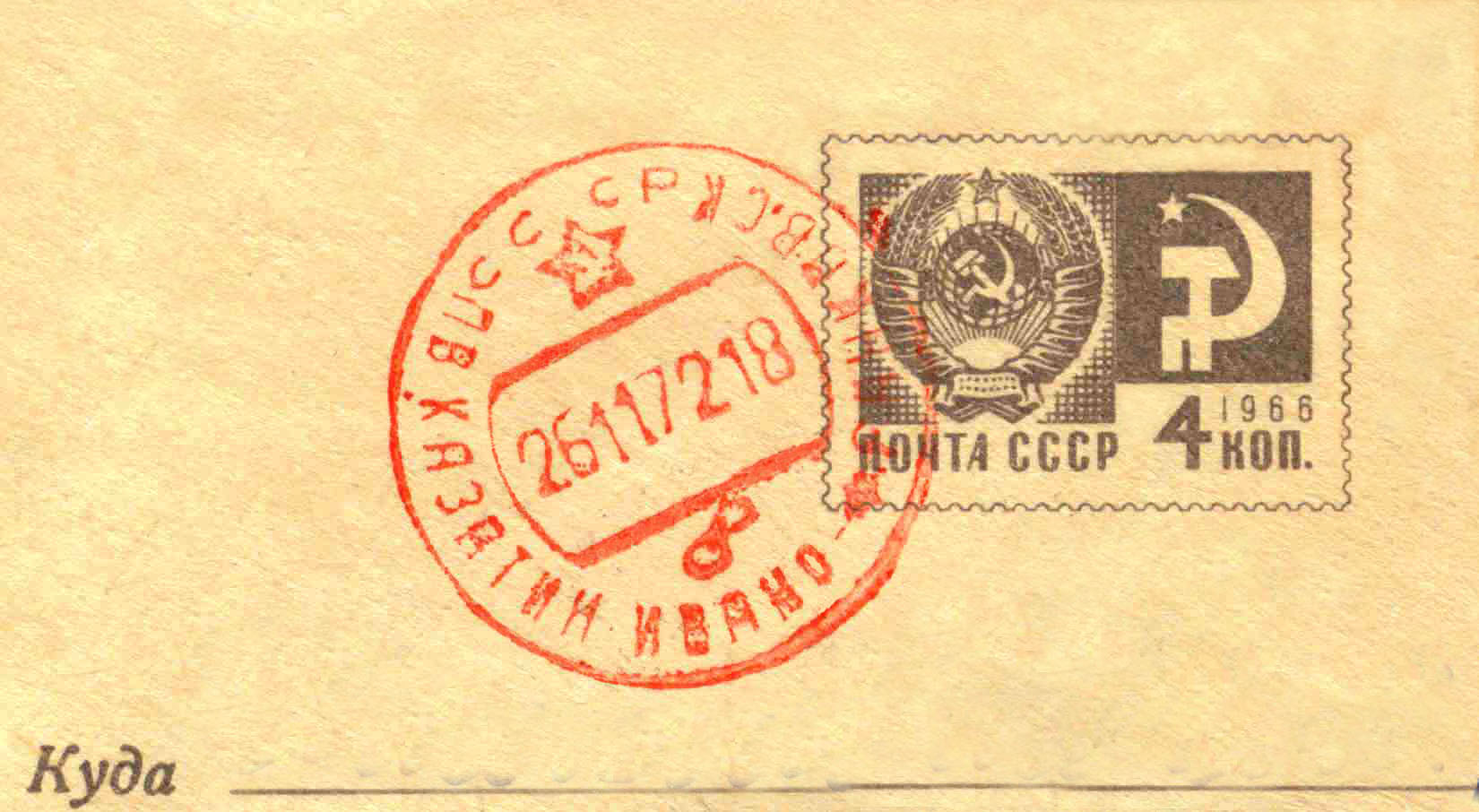 USSR postmark of railway traveling post office, the route Kazatin - Ivano-Frankovsk (Ukraine), November 26, 1972. Cut from postal stationery with a standard USSR stamp of 1966.